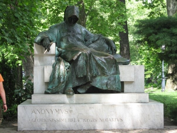 Statue of Anonymous by Miklós Ligeti in Budapest